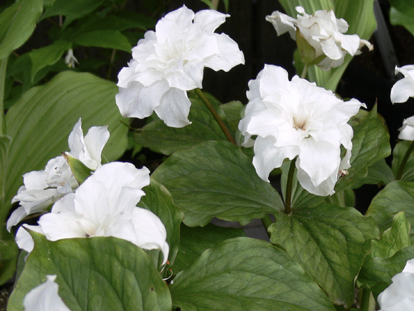 Flowers of a double-flowered cultivar of Trillium grandiflorum (probably either 'Flore Pleno' or 'Snowbunting') exhibited on a stall at the Journées de Plantes de Courson (French plant fair)